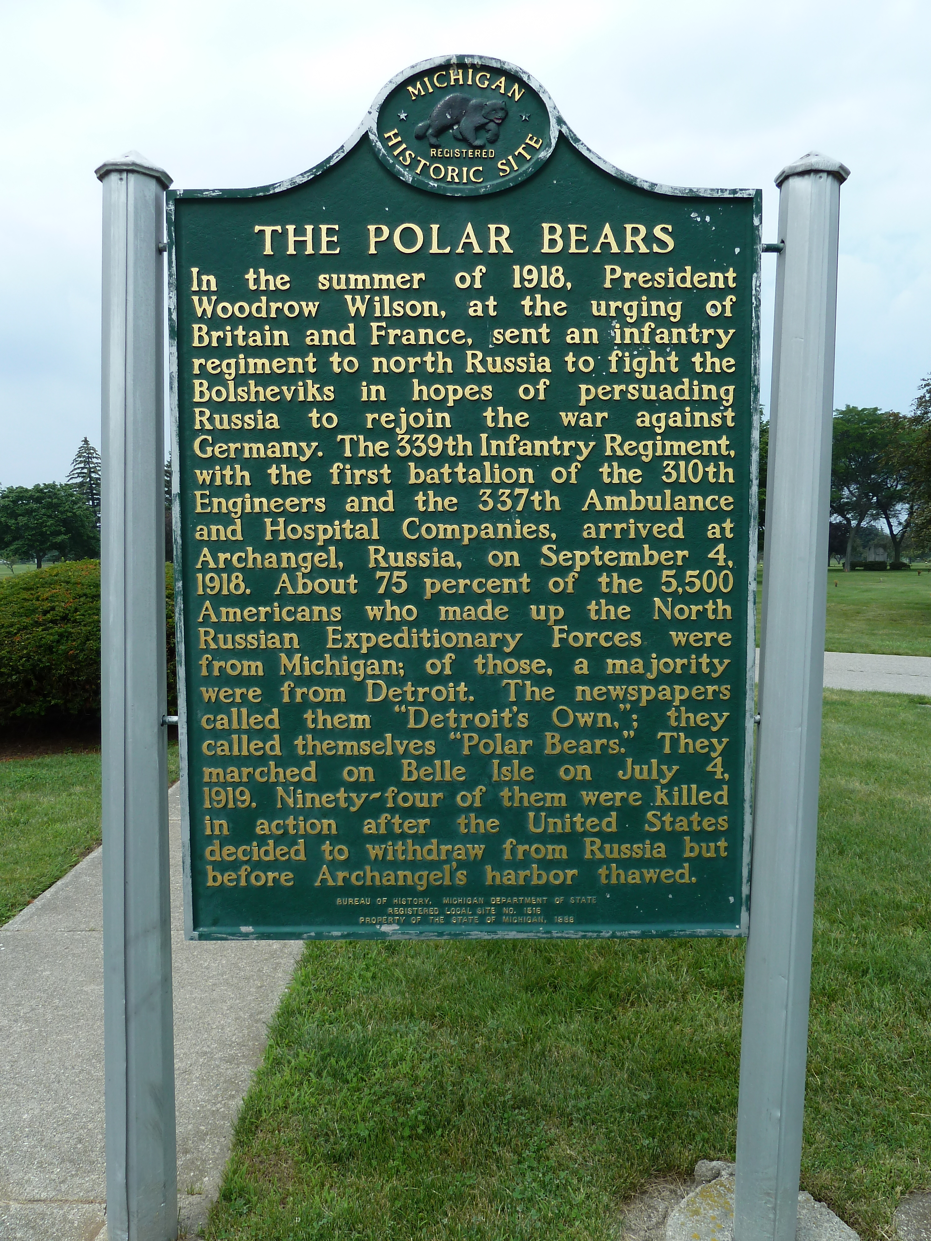 Historical marker for Polar Bear Monument in White Chapel Cemetery, Troy, Michigan.